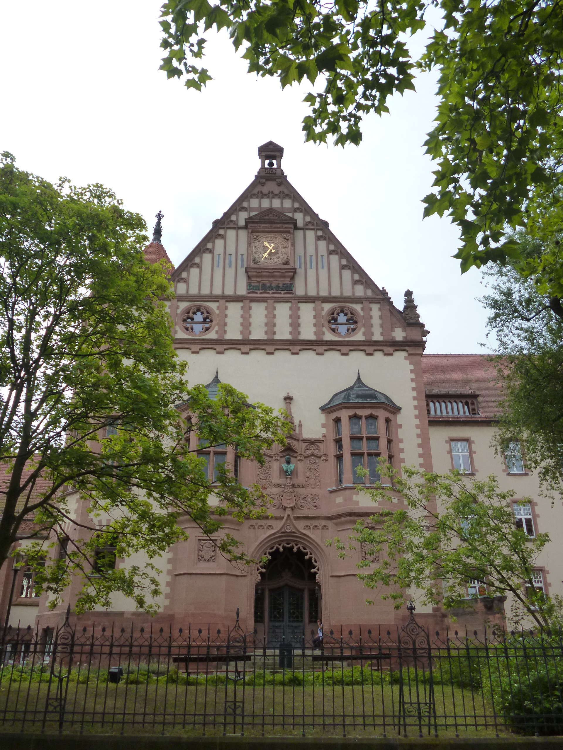 Main building of the Paul Riebeck foundation, Kantstrasse No. 1, Halle (Saale)